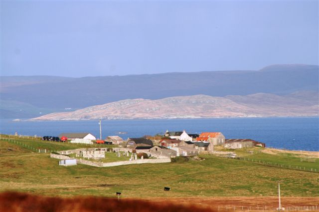 Gunnista Gunnista Township from south east